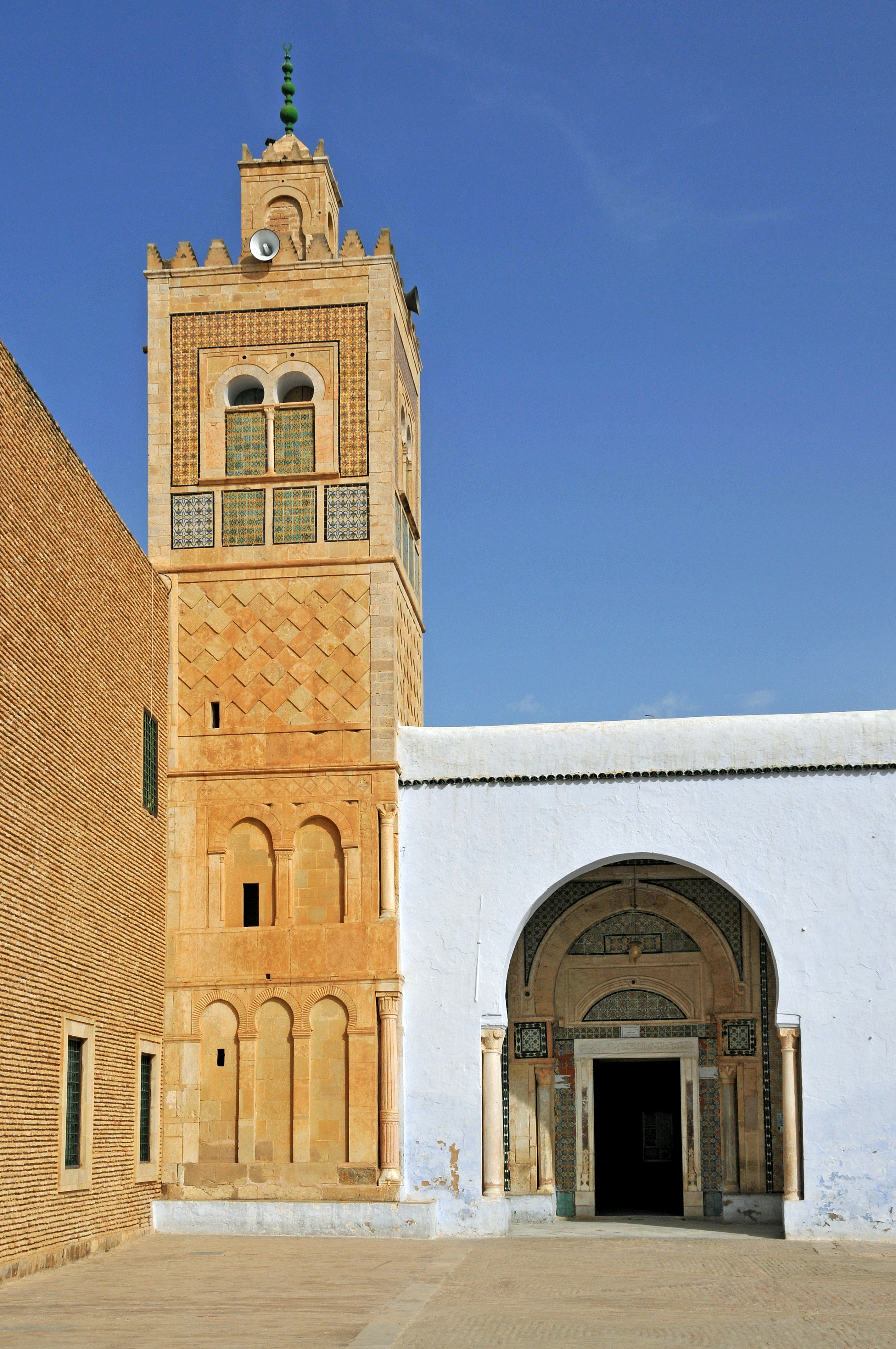 Minaret of the mausoleum of Sidi Saheb, in Kairouan, Tunisia.